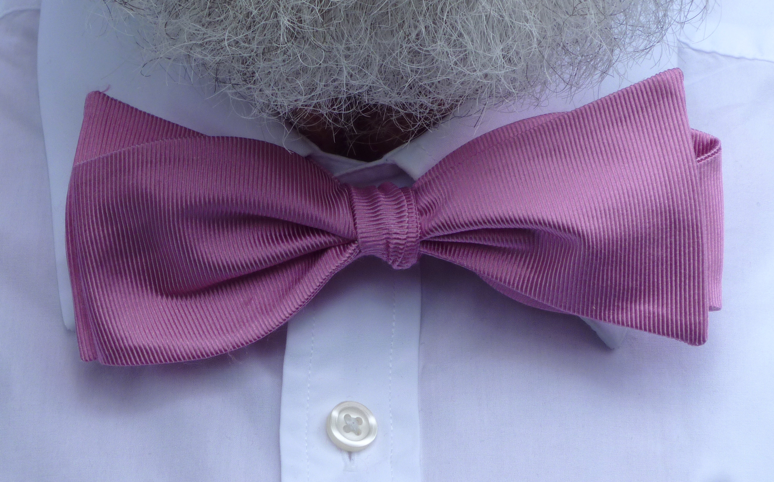 Bowtie, type Butterfly, silk, self tied